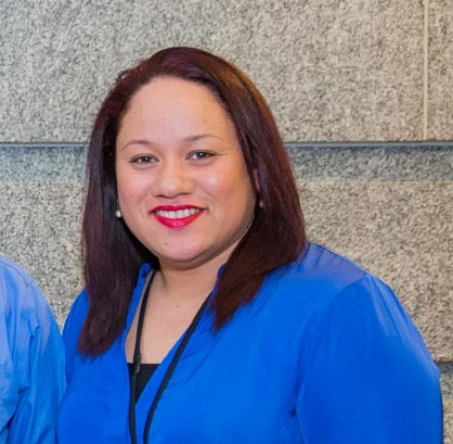 'Akosita Lavulavu, Tongan MP, at the Pacific Parliamentary Forum in Wellington, NZ, in 2016